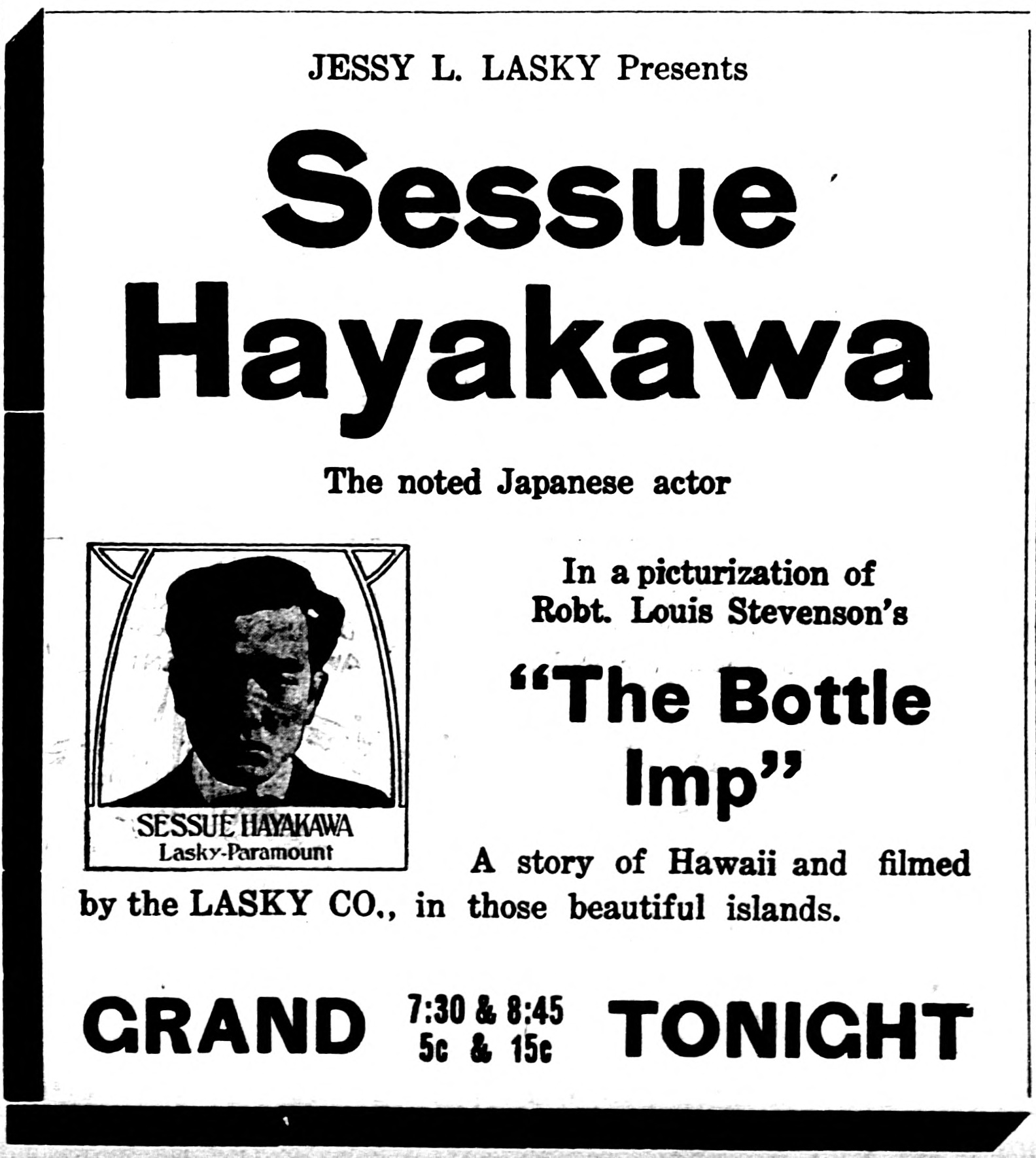 The Bottle Imp is a lost 1917 silent fantasy film produced by Jesse Lasky and distributed through Paramount Pictures. This is a newspaper advertisement for the film.